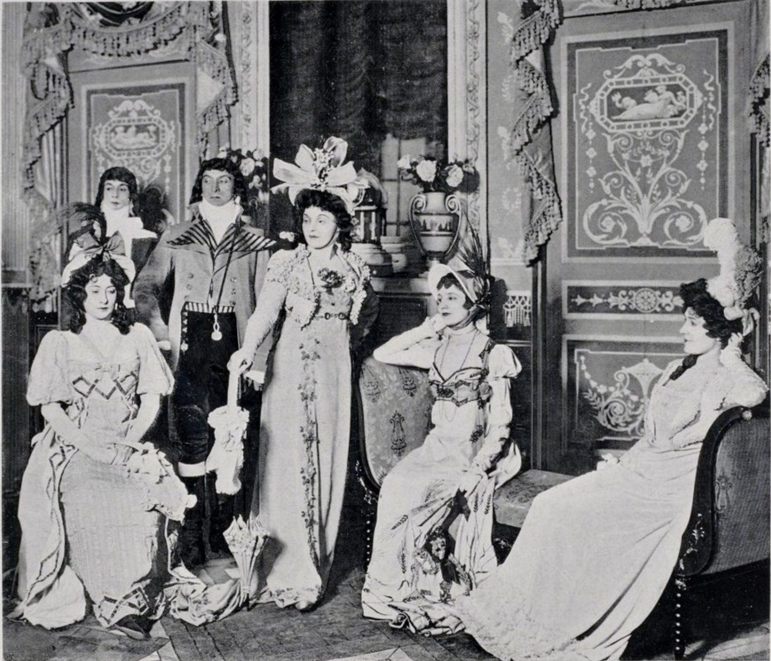 Suzanne Avril, actress, at the Vaudeville Theater in Paris in 1898 in a play by Victorien Sardou : Pamela, merchant of frivolities. From left to right: Suzanne Avril (Madame Atkins), Pierre Magnier (Bergerin), Réjane (Pamela), Camille-Gabrielle Drunzer (Joséphine) and Aimée Martial (Madame Tallien).